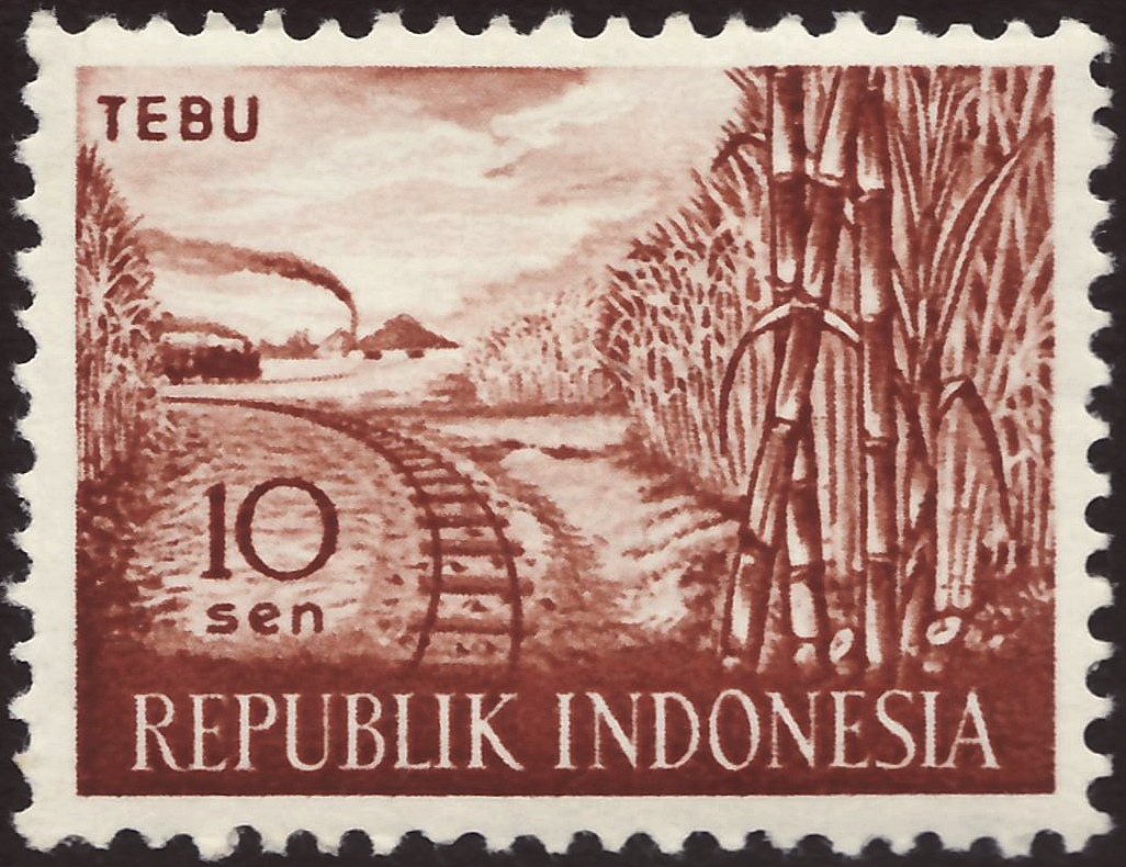 Stamp of Indonesia; 1960; definitive stamp of the issue "Agricultural Products"; stamp drawing with a narrow-gauge railway track running through sugar cane fields ("Saccharum officinarum"); mint stamp Note: The inscription on this stamp is "Tebu". "Tebu" is the Indonesian name for (strictly spoken) the sugar cane flower plant ( = "Saccharum edule hasskarl") = other names in Indonesian dialects are: "Terubuk", "Bunga tebu", "Tebu kerdil", in Malayian "Tebu telur", in Chinese "甘蔗". Stamp: Michel: No. 270; Yvert et Tellier: No. 216; Scott: No. 495 Color: red brown Watermark: none Nominal value: 10 Sen Postage validity: from 17 October 1960 until ? Stamp picture size (printed area): 28.0 x 21.0 mm